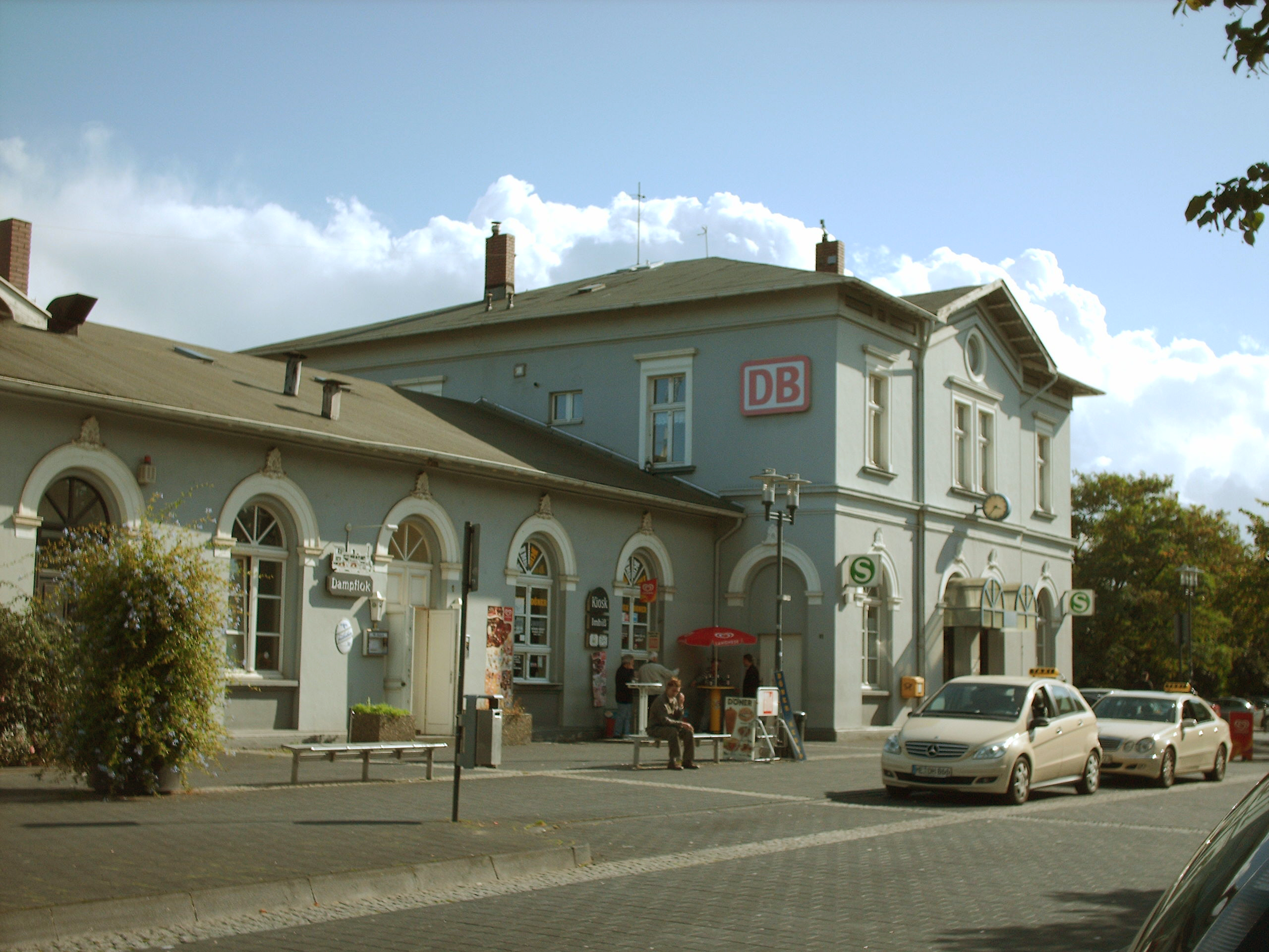 Ratingen Ost station, Ratingen, Germany check usage